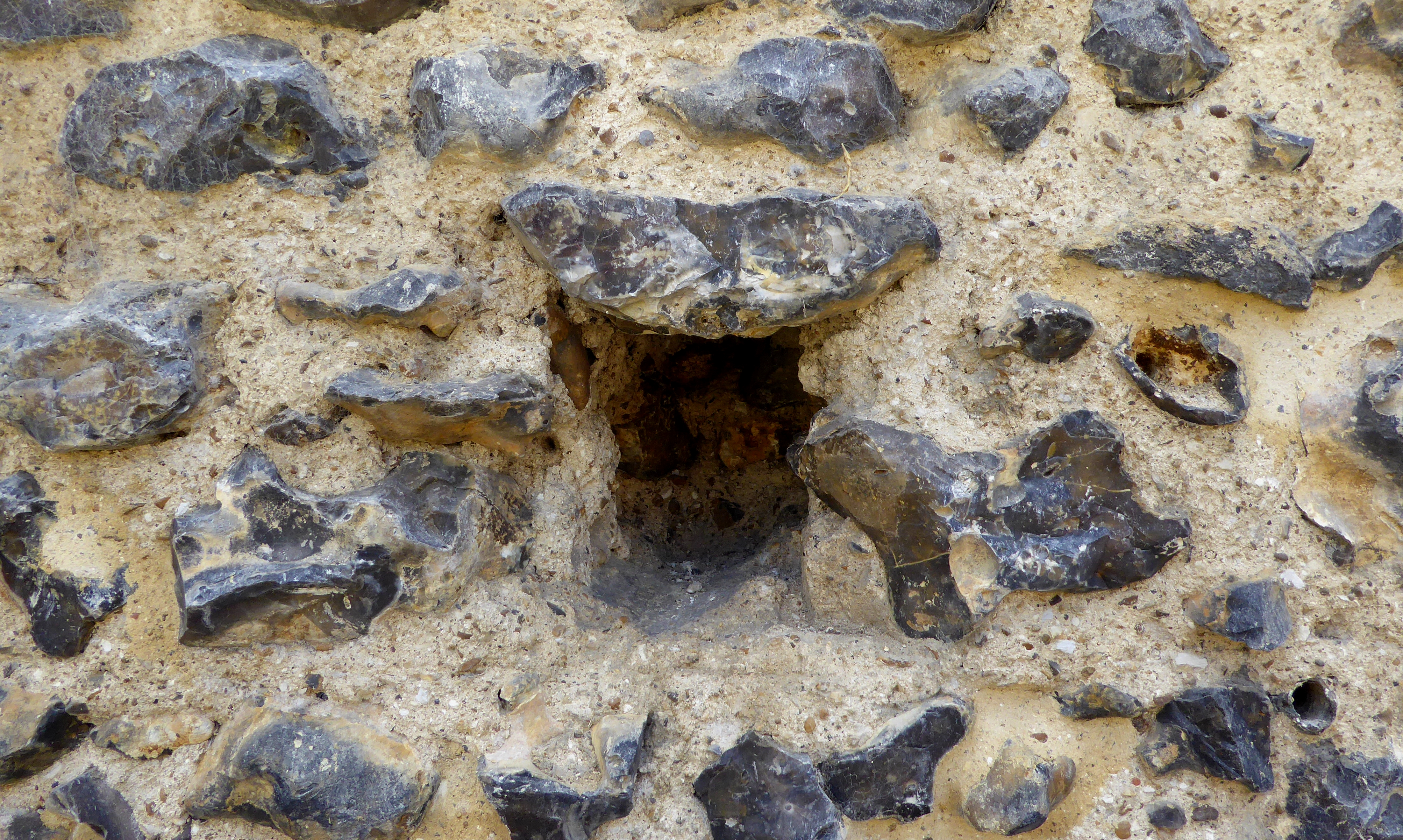 A putlog hole in one of the extant walls of Reading Abbey. These once housed logs that formed part of the scaffolding.